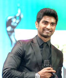 Actor Atharvaa at the 61st Filmfare Awards South